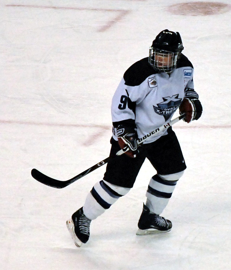 Calgary Oval X-Treme vs Minnesota Whitecaps, WWHL, 2009-03-20